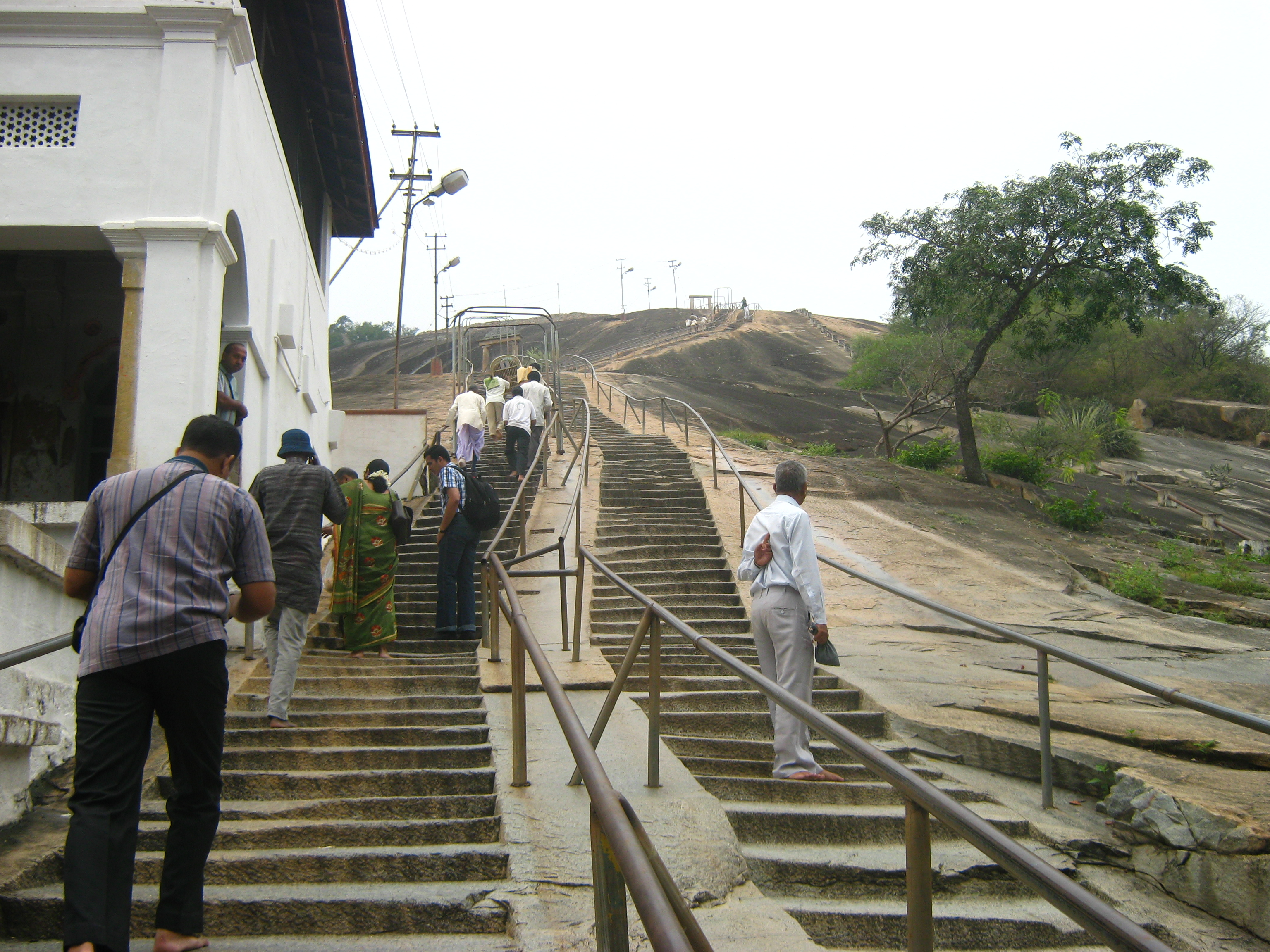 The path leading to the summit of Vindhyagiri